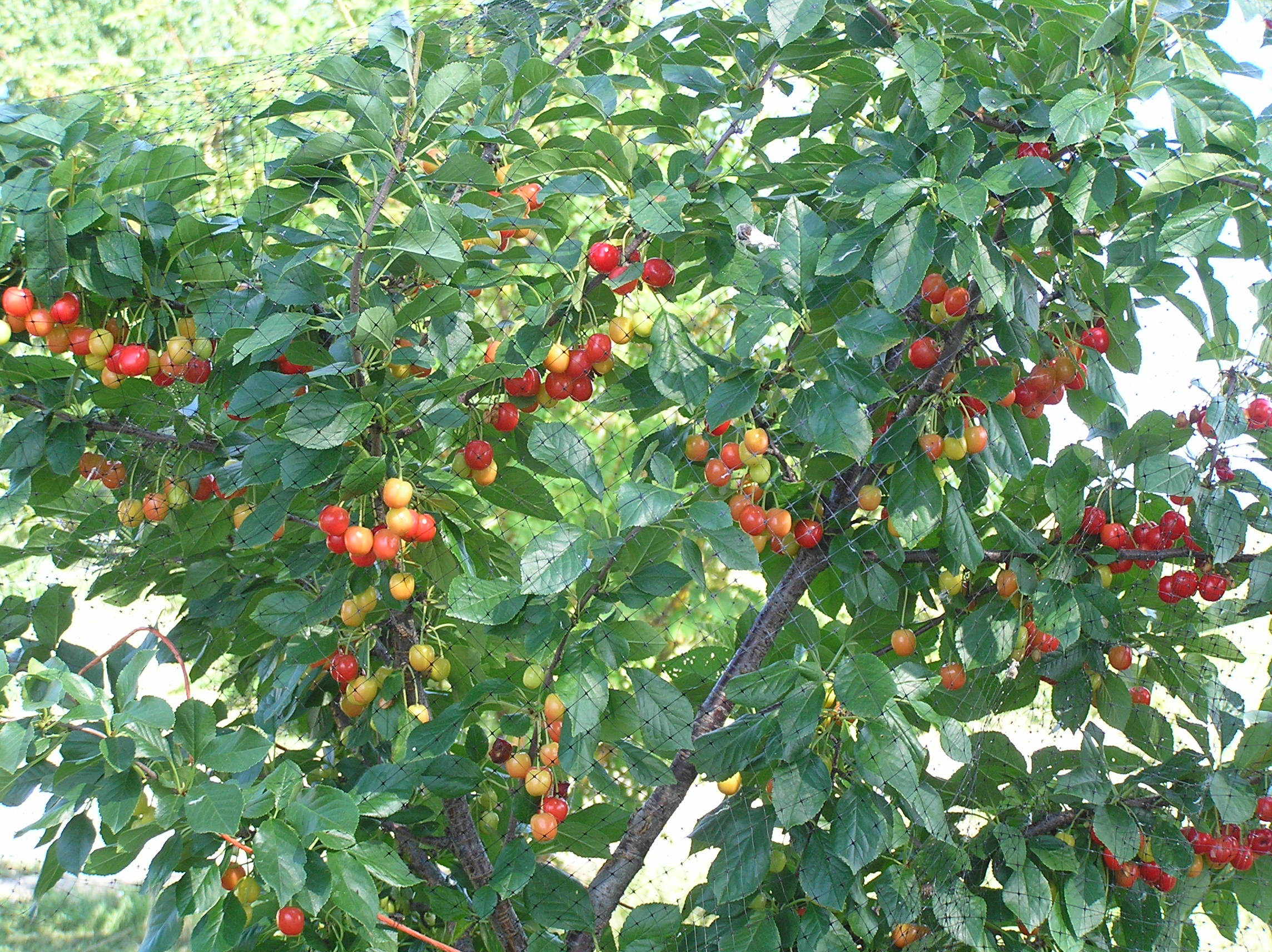 A young Evans Cherry tree growing in Montana, with ripening cherries.